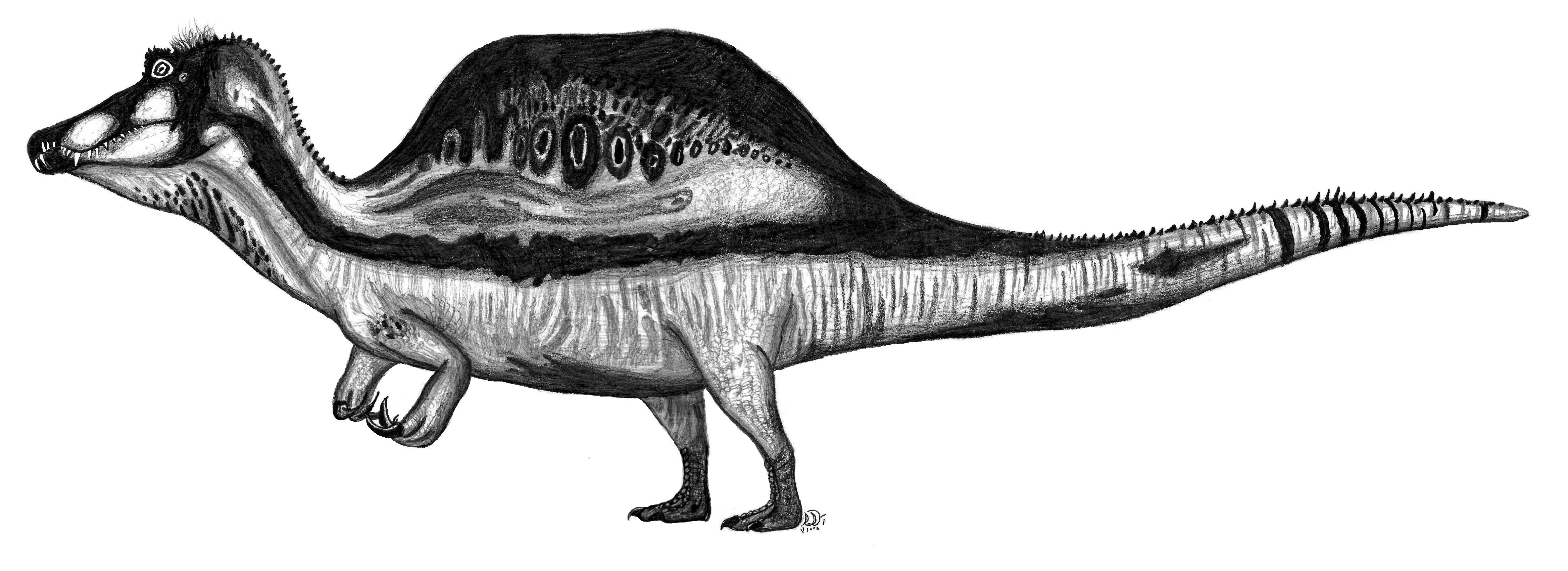 My new life restoration of O. quilombensis, based on its closest relative Spinosaurus aegyptiacus